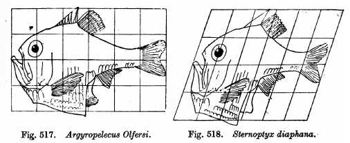 D'Arcy Wentworth Thompson